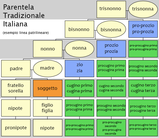 italian traditional kinship scheme